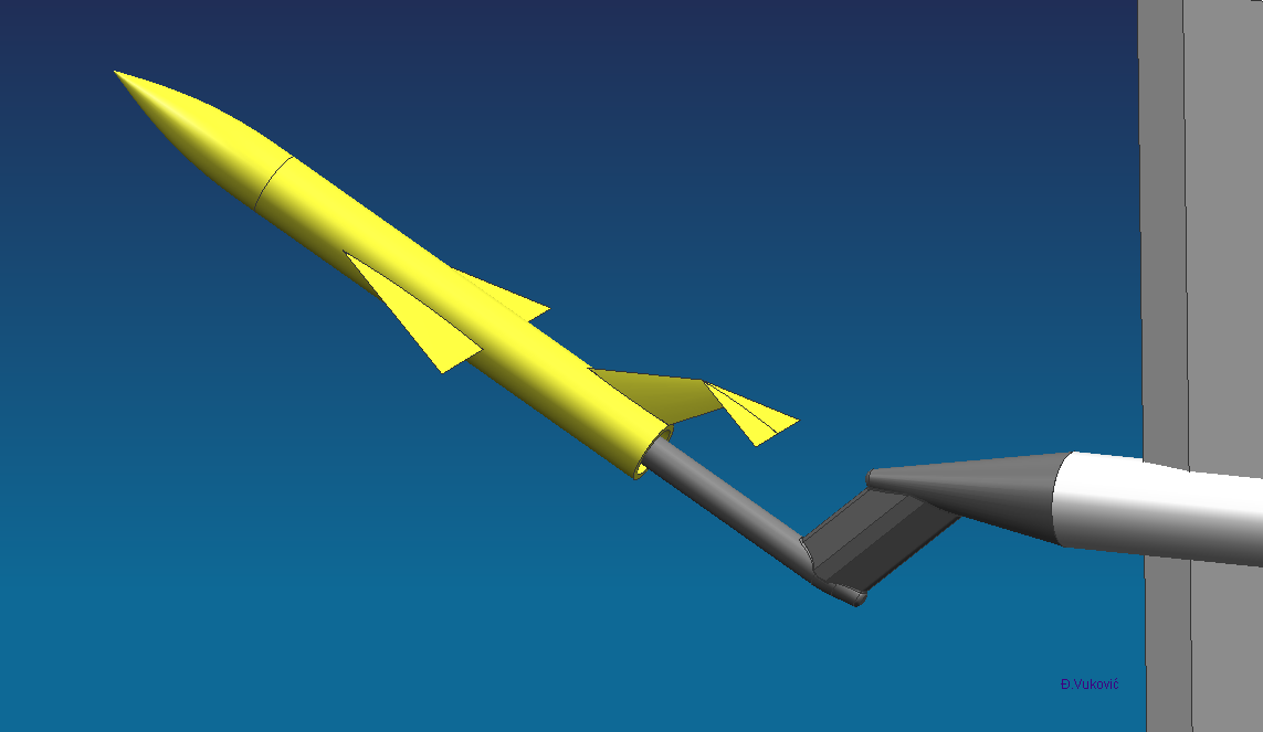 Explains the concept of a bent sting